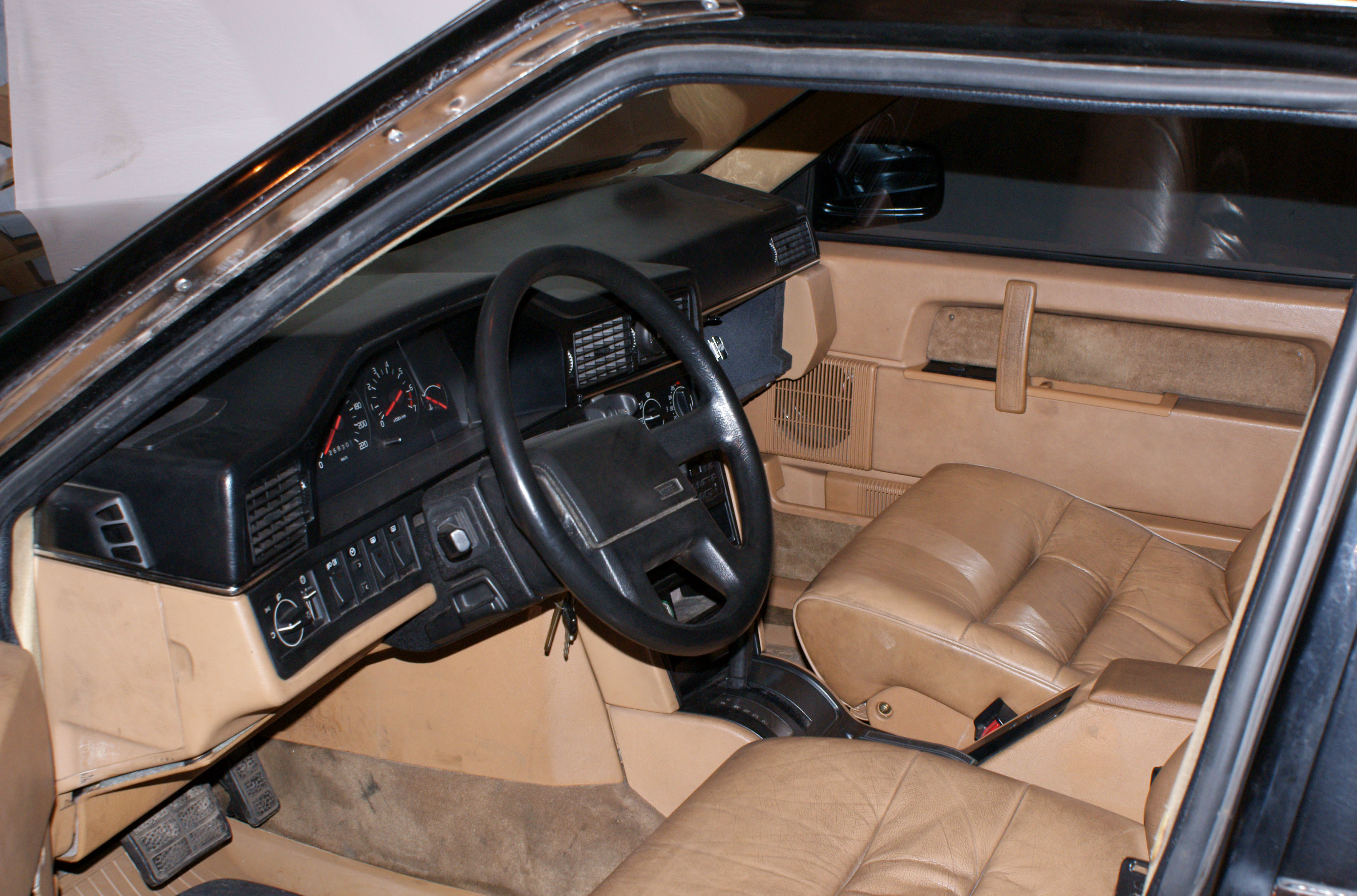 Interior of bullet-proof Volvo 760 GLE. Bought in 1989 for president Wojciech Jaruzelski, was also used by Lech Wałęsa.